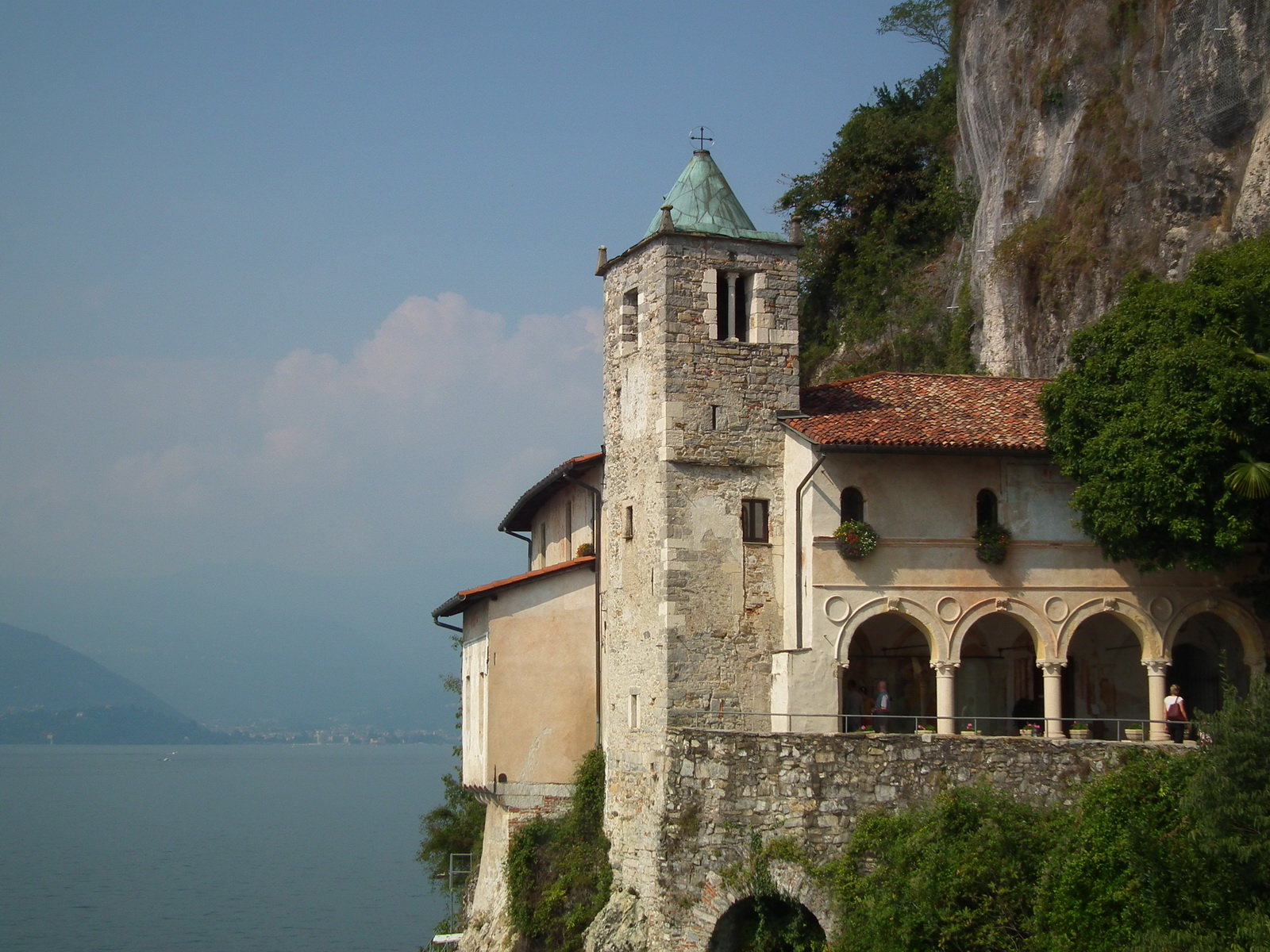 Church of Saint Catherine Native nameEremo di Santa Caterina del SassoLocationLeggiuno, Lombardy, ItalyCoordinates45° 52′ 38.68″ N, 8° 35′ 48.79″ E